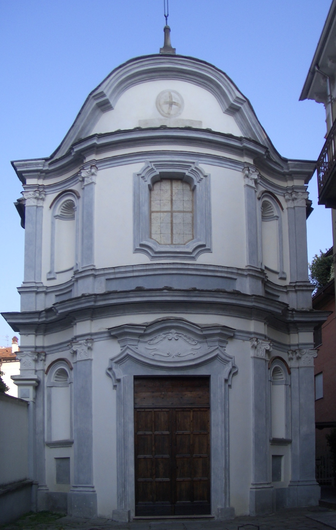 St. Gaudenzio Church at Ivrea (Torino), XVIII century